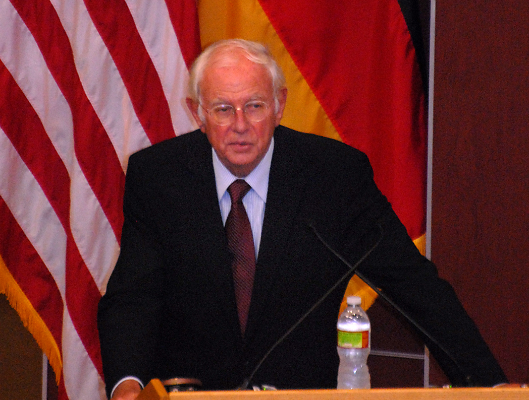 German Ambassador Klaus Scharioth speaks to Command and General Staff College students and faculty Sept. 16, 2009, in the Lewis and Clark Center's Marshall Auditorium at Fort Leavenworth, Kan.